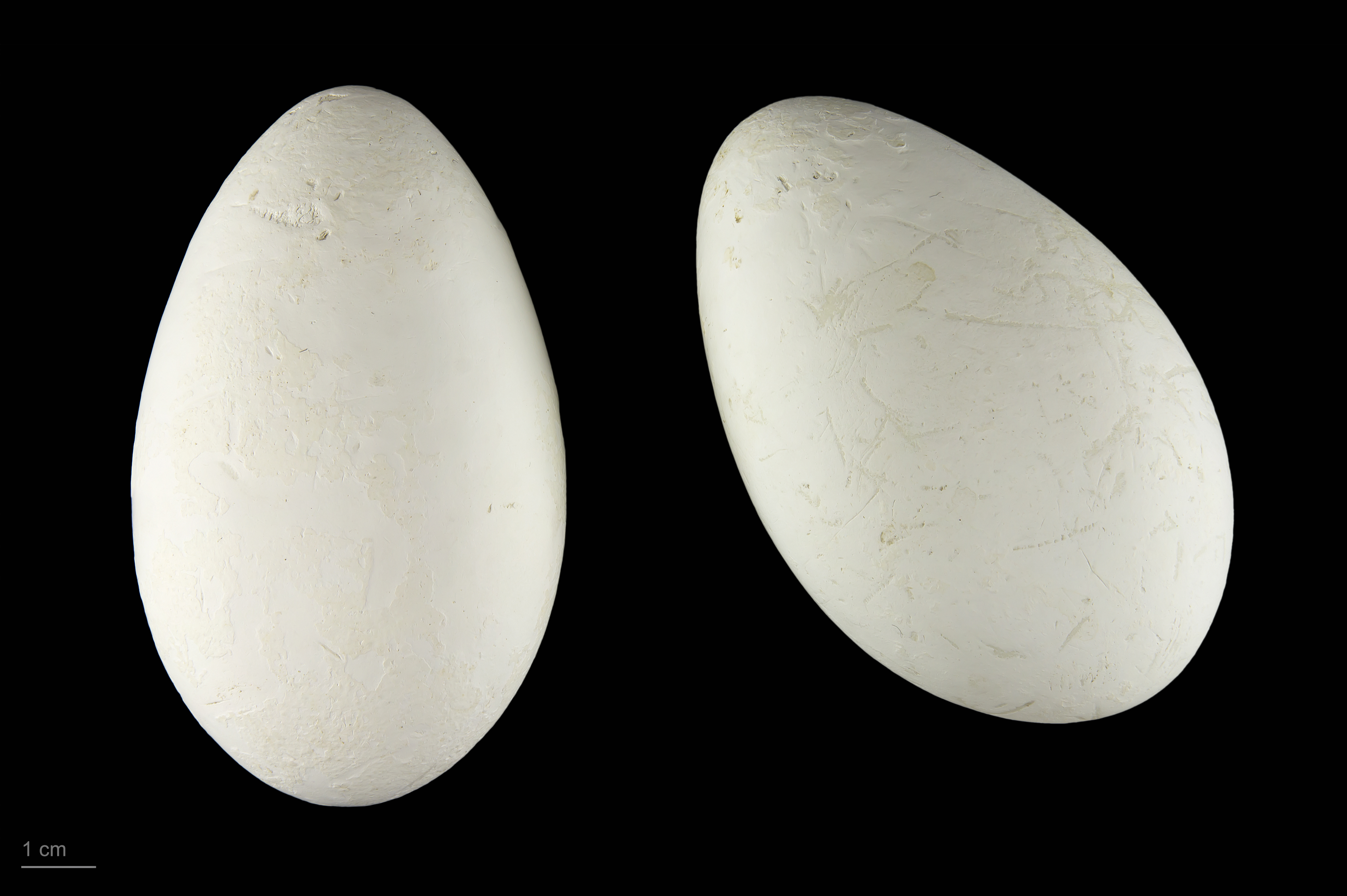 Eggs of American flamingo Two specimens of the same spawn ; collection of Jacques Perrin de Brichambaut.